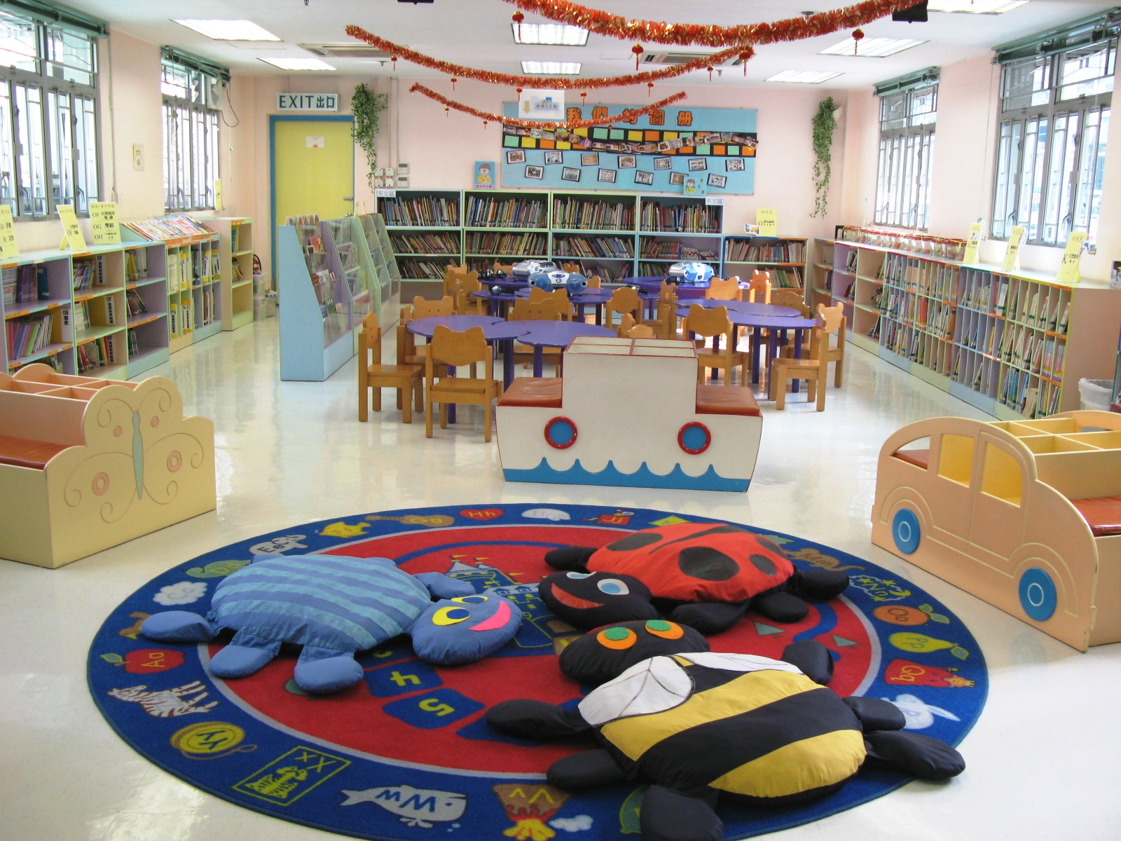 香港保護兒童會閱覽室